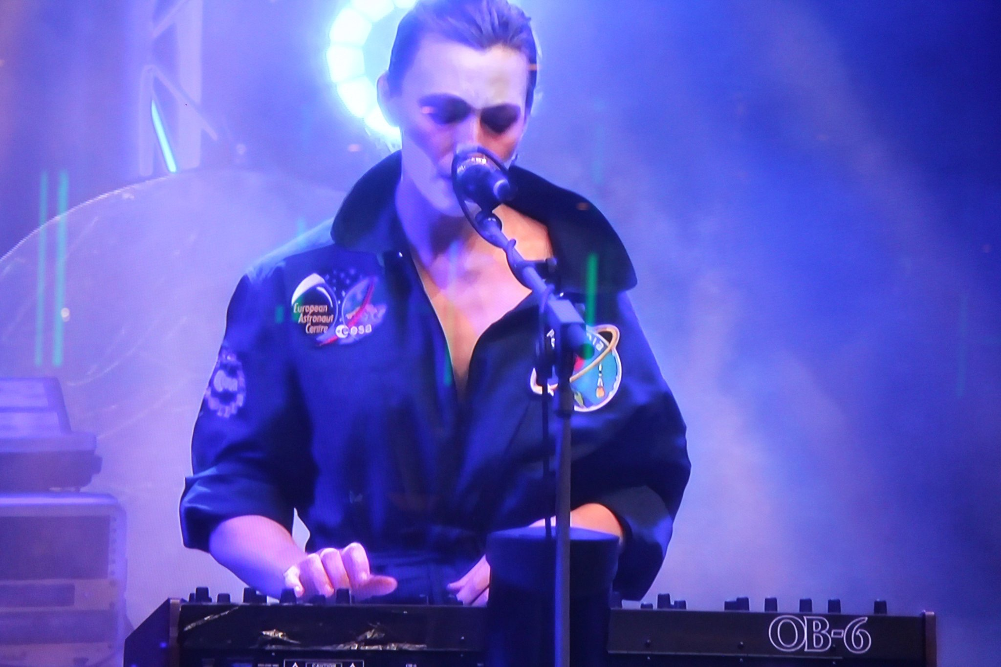 2018 live performance at Indigo at the 02 as part of the Space Rocks festival